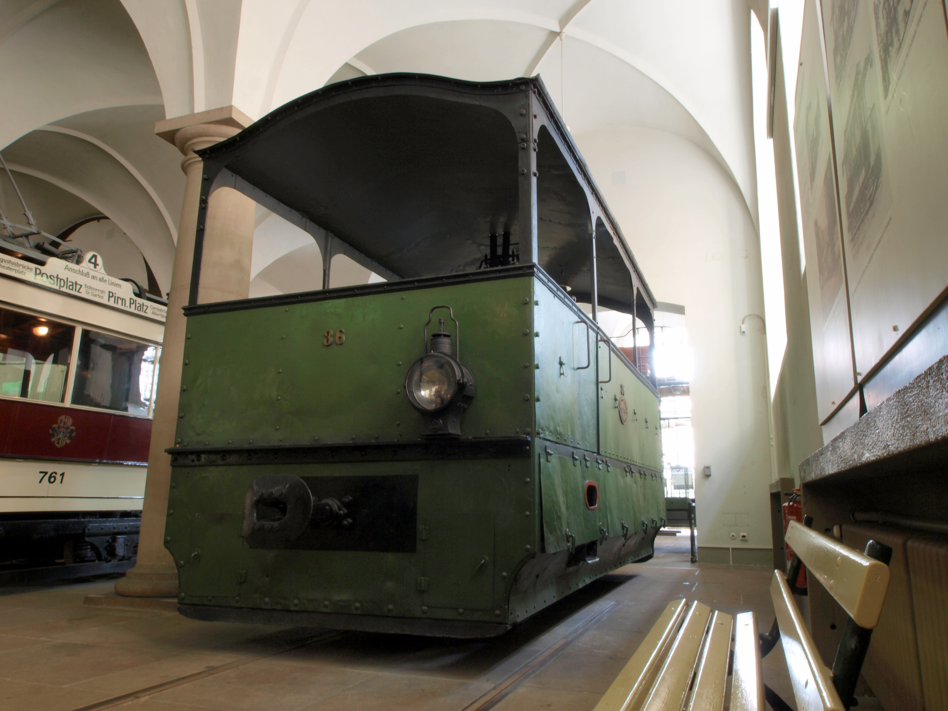 Photo taken without a tripod (was not permitted!) Schwarze Jule, Lok No 36.